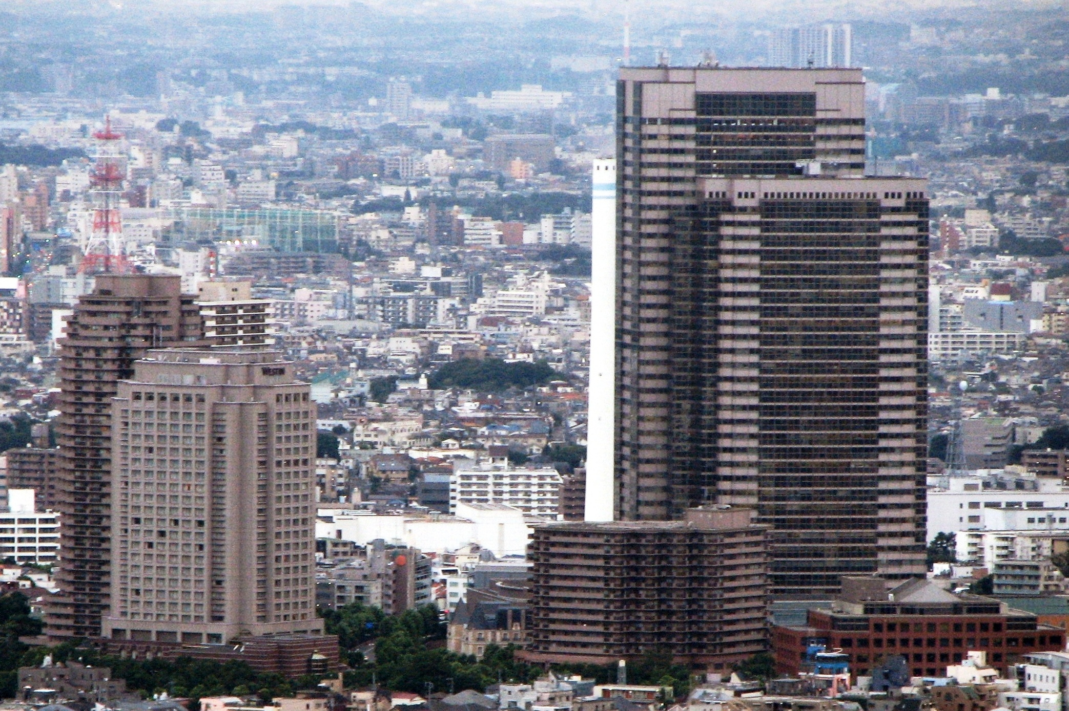 View of Yebisu (Ebisu) Garden palace as seen from Tokyo Tower.